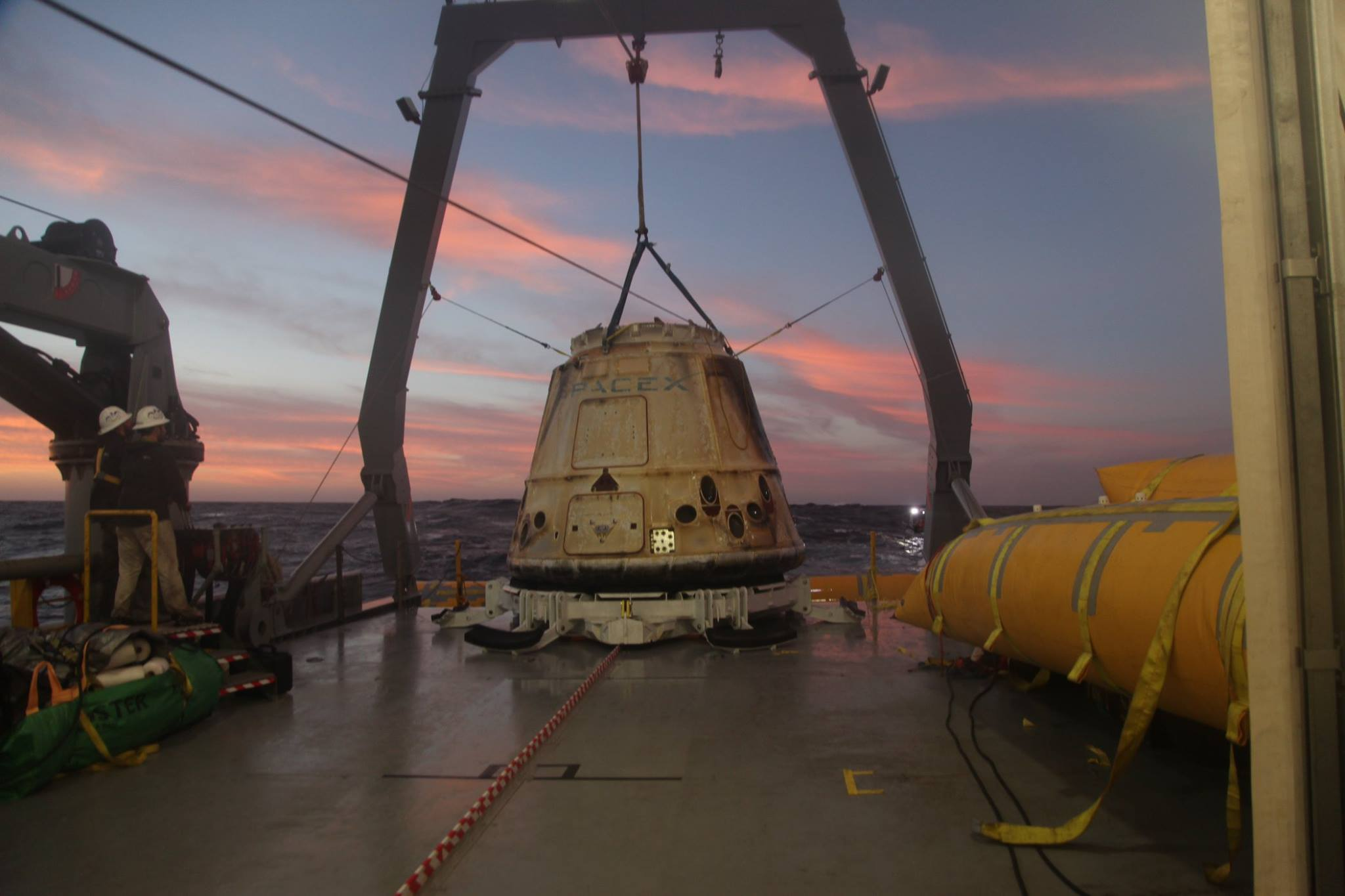 SpaceX’s Falcon 9 rocket and Dragon spacecraft launched from Launch Complex 40 at the Cape Canaveral Air Force Station, Florida, for their fifth official Commercial Resupply (CRS) mission to the orbiting lab on Saturday, January 10 at 4:47am EST. Dragon returned to Earth four-and-a-half weeks later with a parachute-assisted splashdown off the coast of southern California. Dragon is the only operational spacecraft capable of returning a significant amount of supplies back to Earth, including experiments.